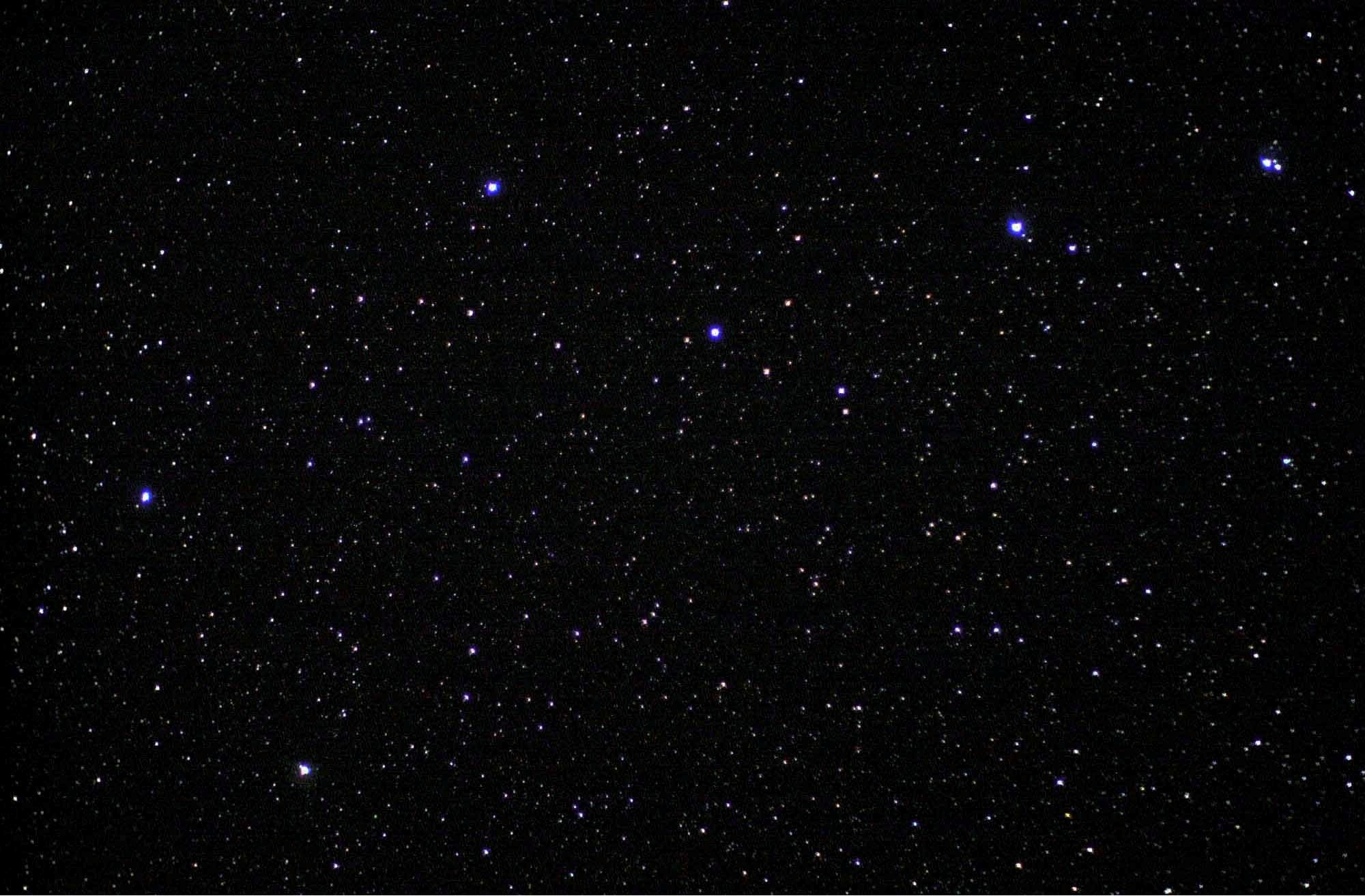 The bowl and a portion of the ?handle? stars of the Big Dipper are visible in this photograph taken by astronaut Donald R. Pettit, Expedition 6 NASA ISS science officer, on board the International Space Station (ISS).